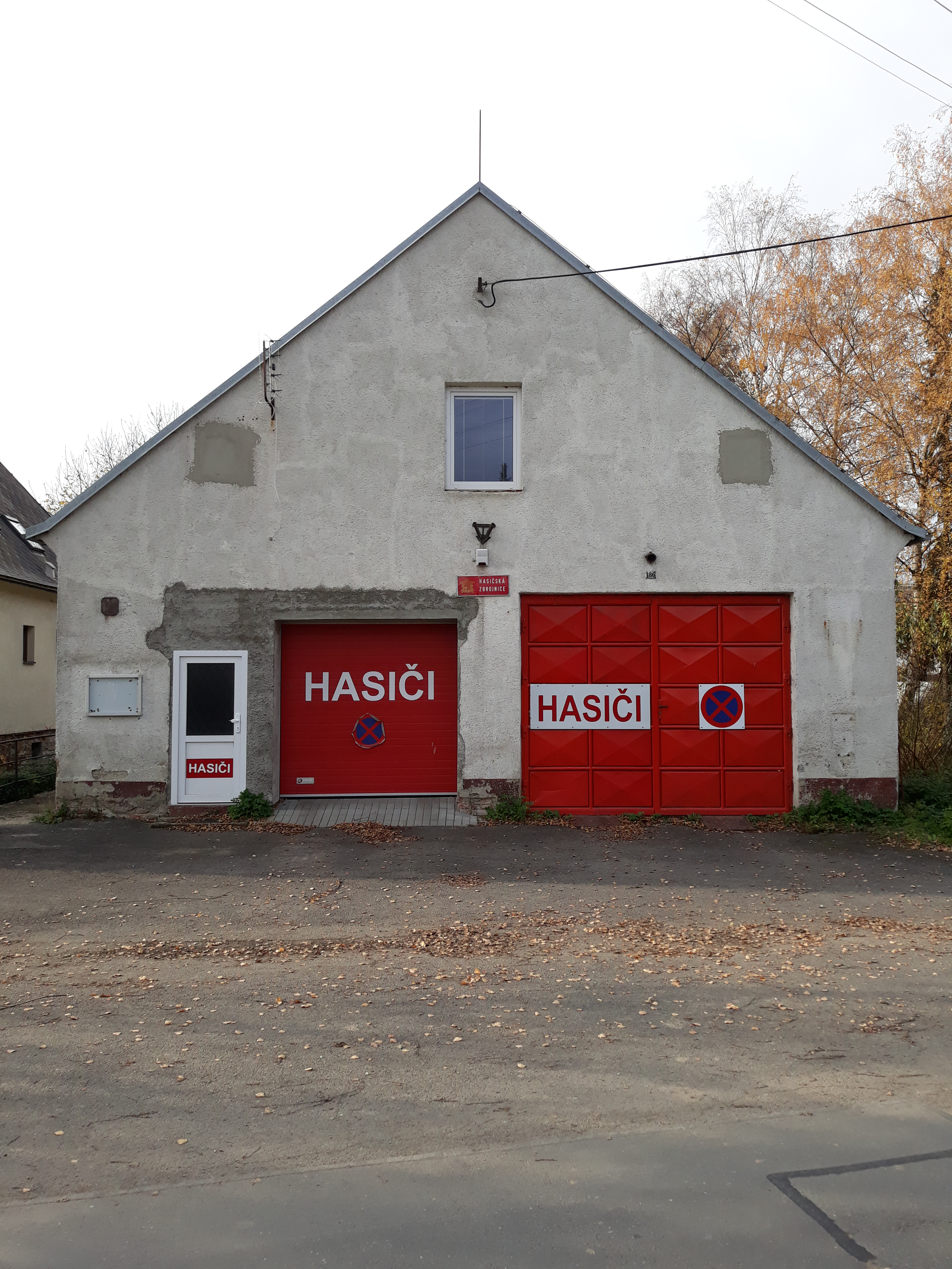 Nová hasičská zbrojnice SDH Dolní Libina